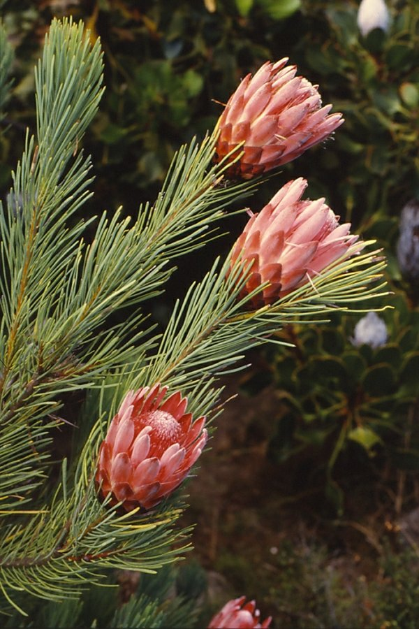 Several inflorescences of Protea aristata